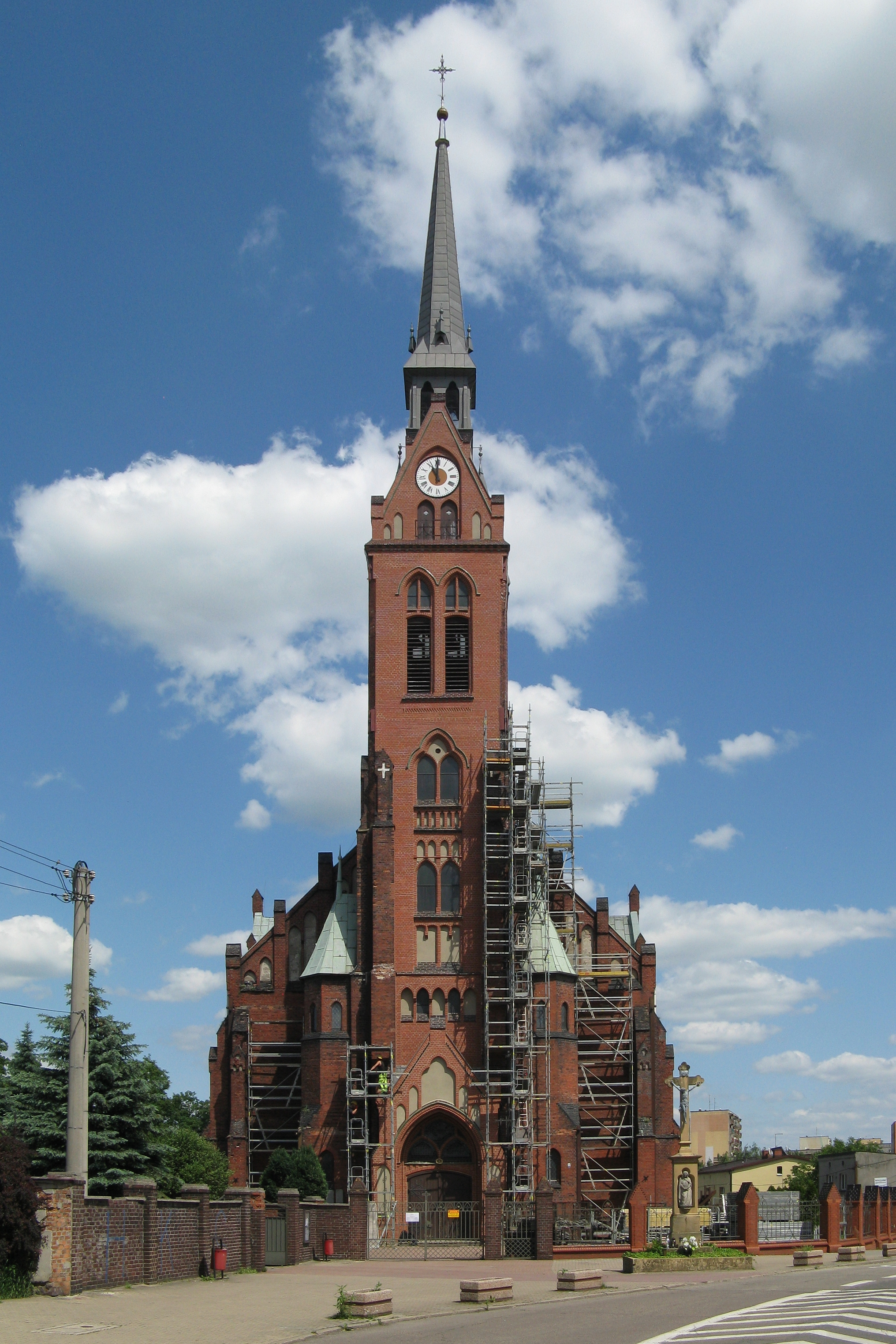 Church of SS. Peter and Paul in Piekary Śląskie.